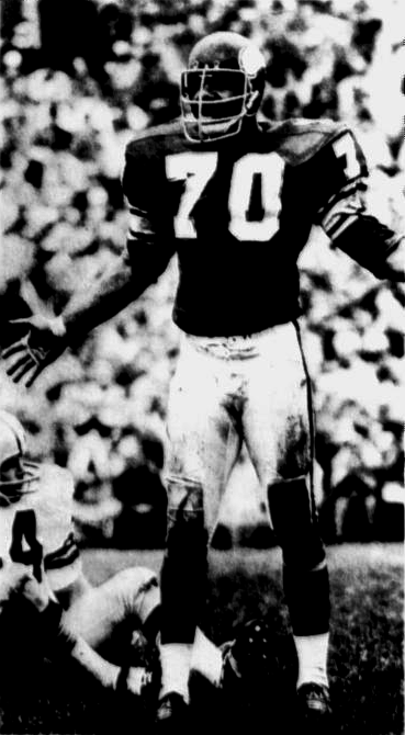 Former Minnesota Vikings DE, Jim Marshall